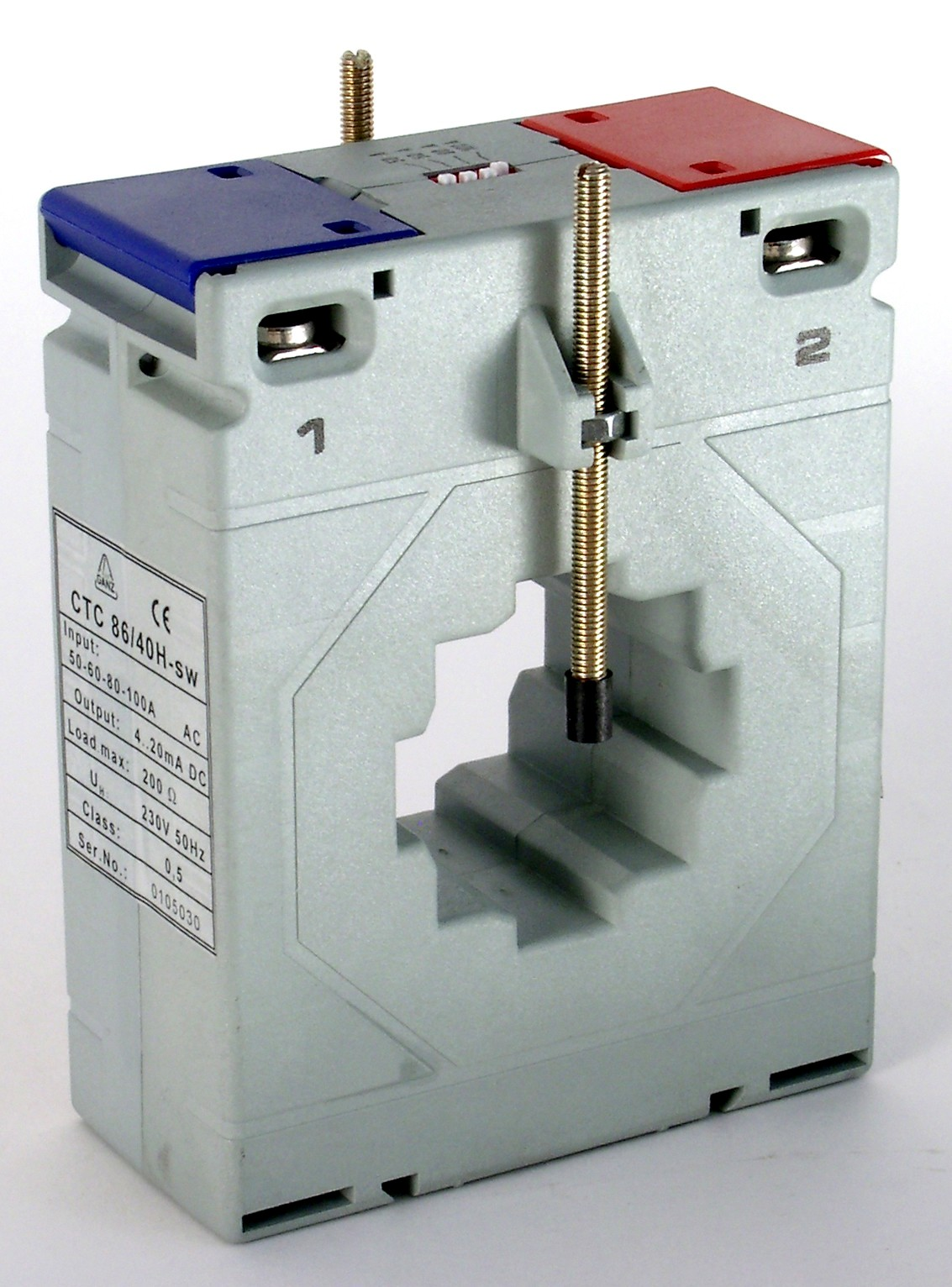 Current transformer